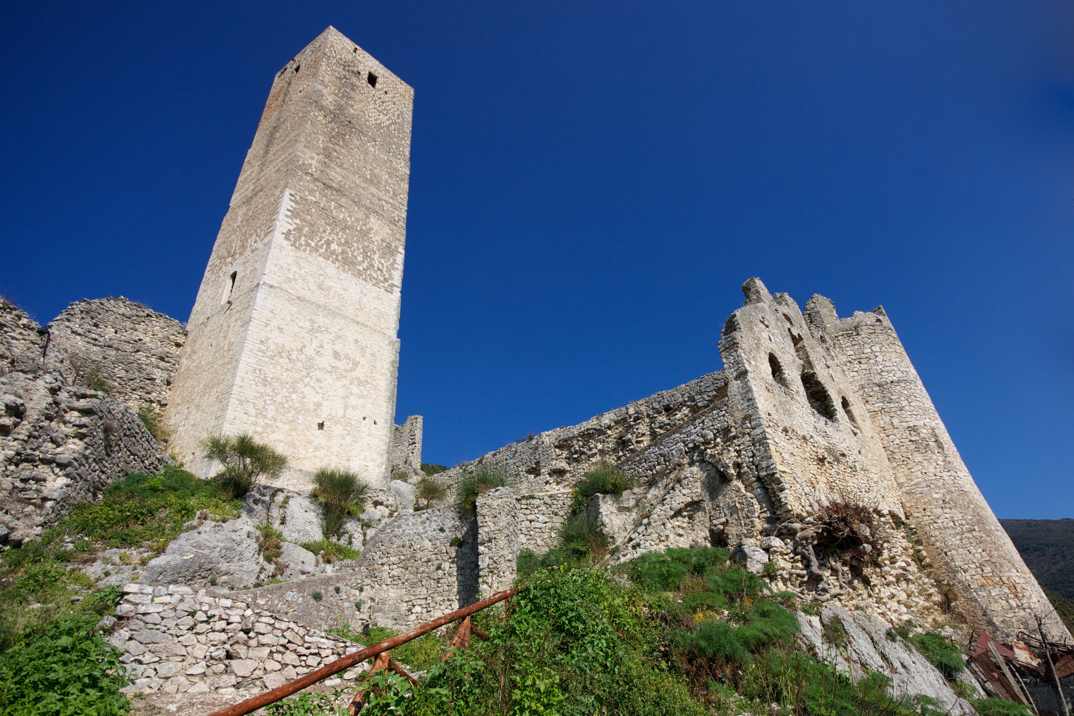 Lombard Tower in Poggio Catino (Province of Rieti, Lazio, Italy)